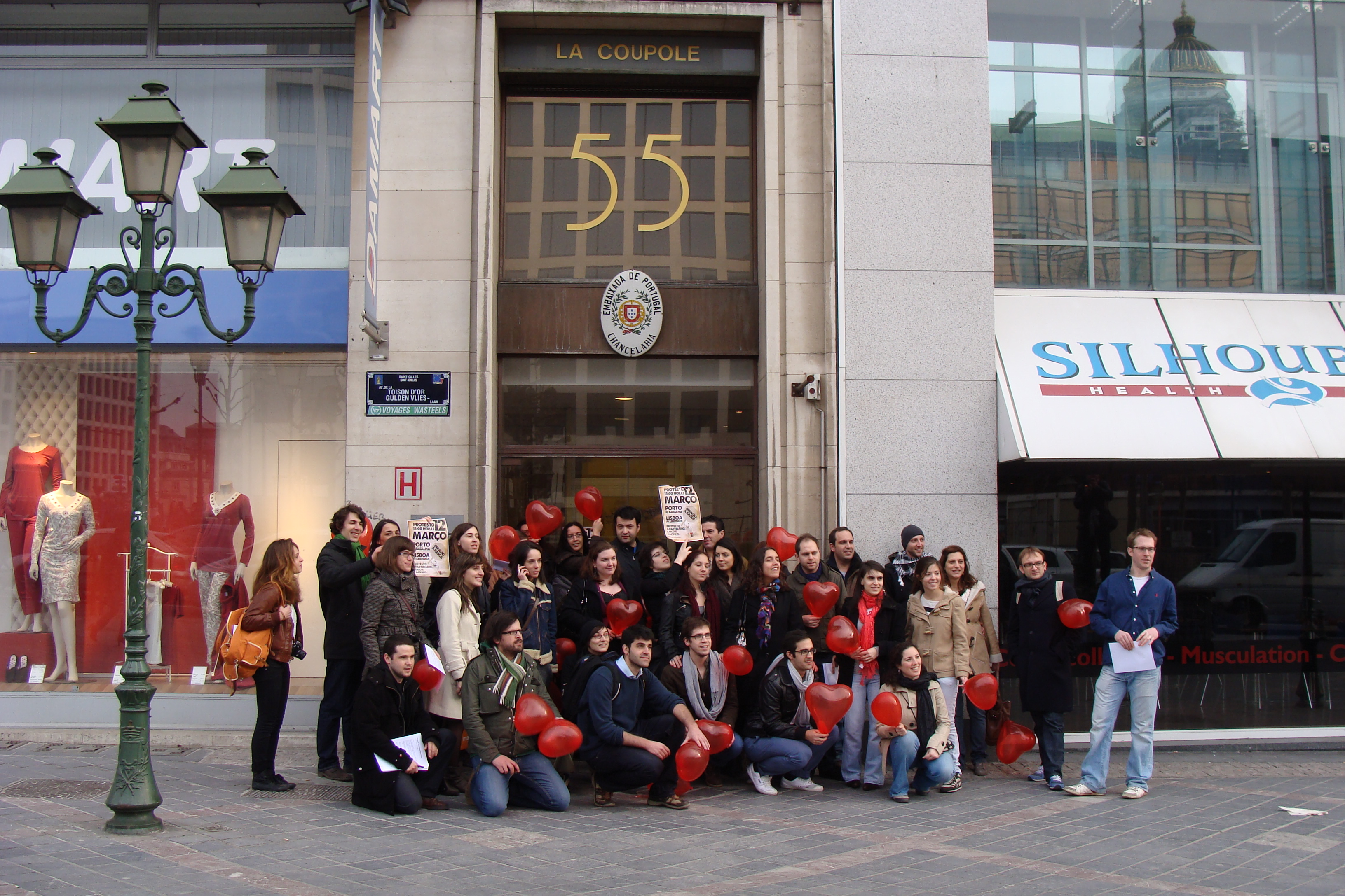 Protesters from Geração à rasca in front of the Portuguese embassy, Belgium.